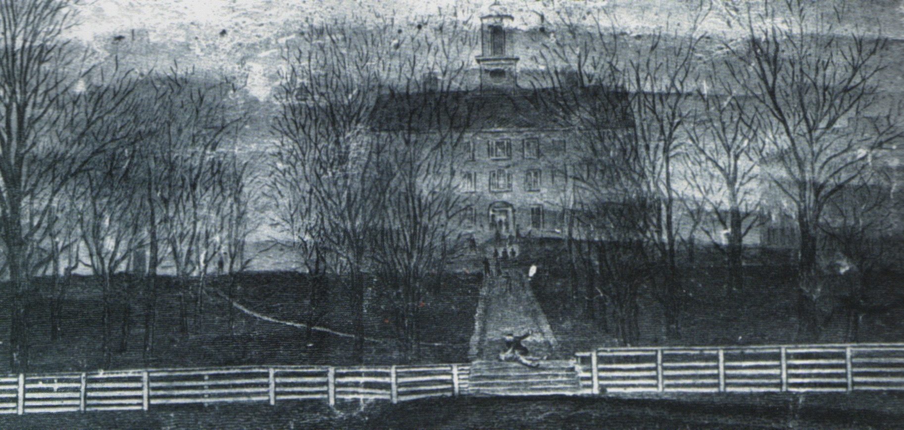 A picture of the Ohio University College Green from the early history of the university